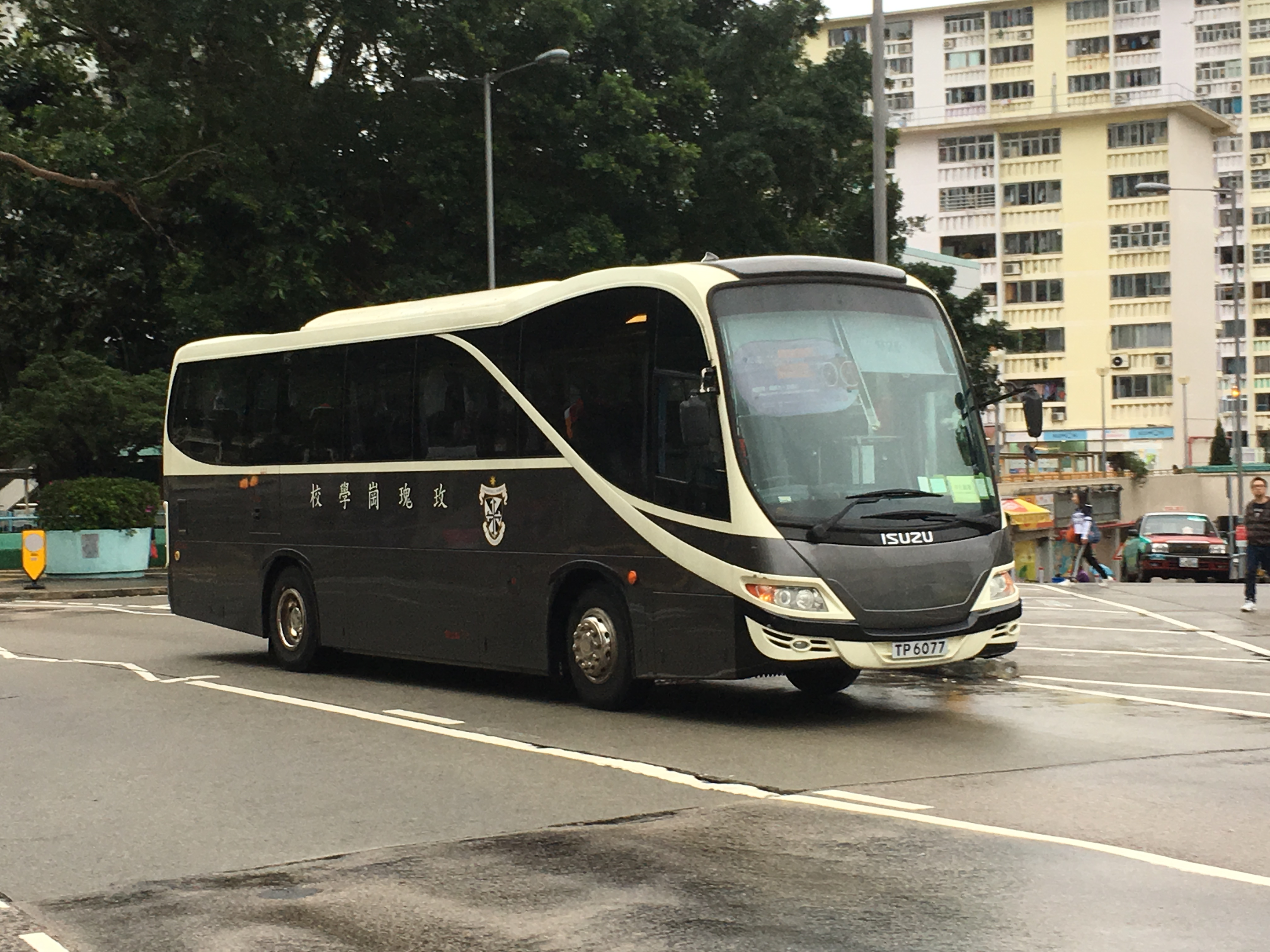 中文（香港）: This photo is taken in Wah Fu.